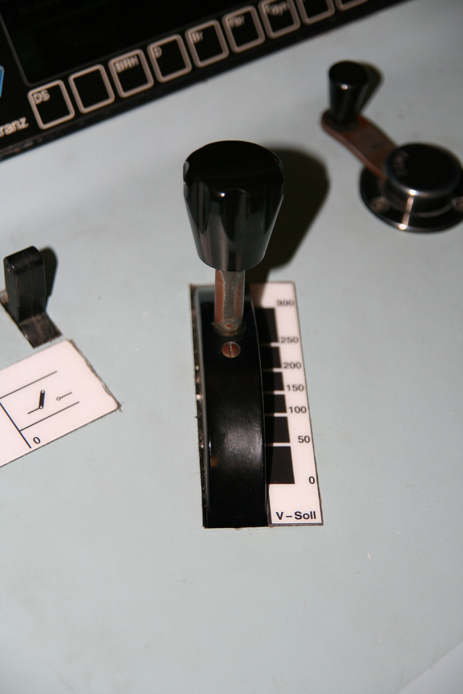 An actuator to the Automatische Fahr- und Bremssteuerung (automated drive and brake control) on an ICE 1 driver's cab. When in operation, the system automatically holds the speed that is defined by this actuator.